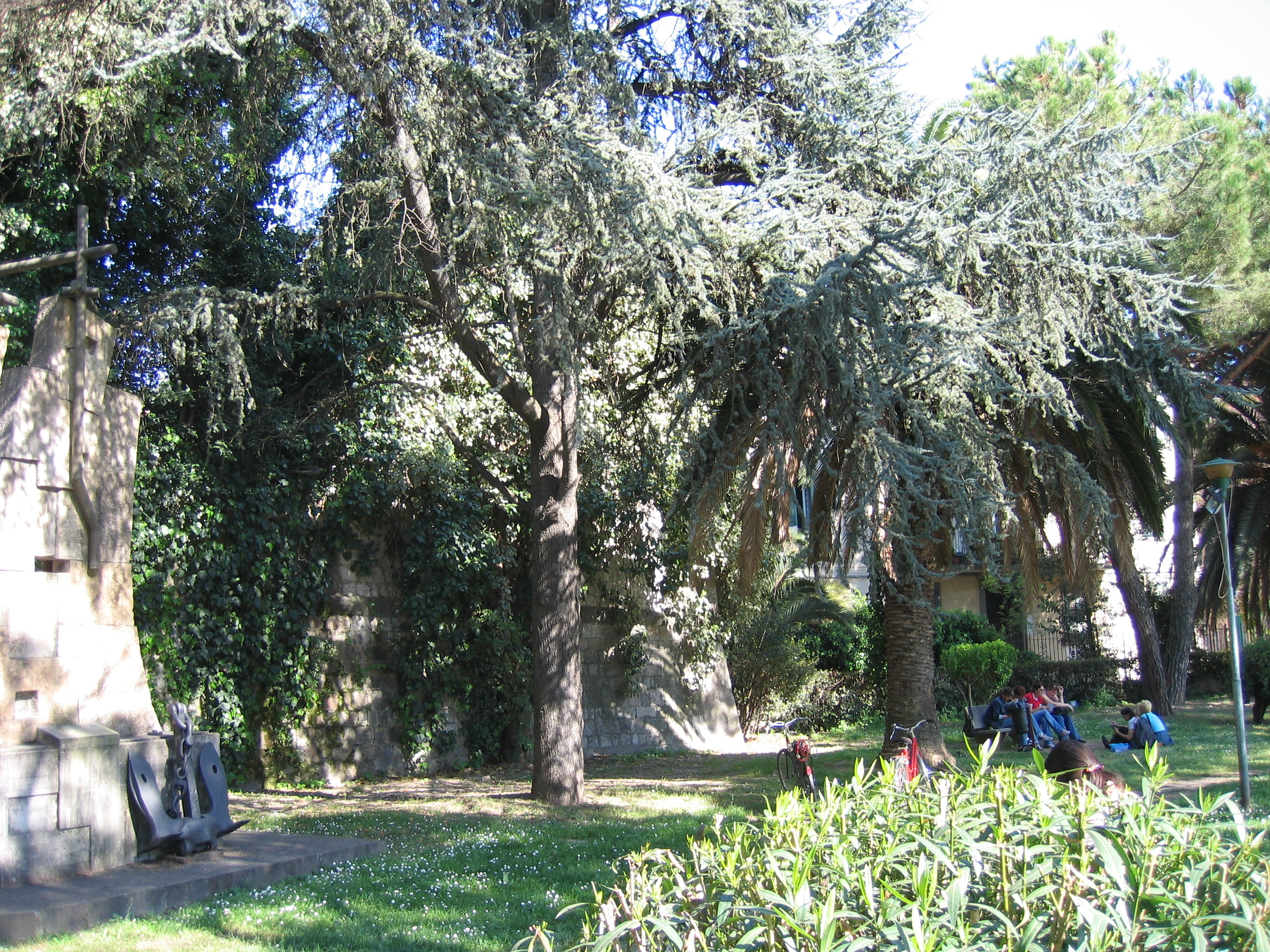 External walls of bastione Bastace